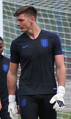 Nick Pope during training with England at the 2018 FIFA World Cup